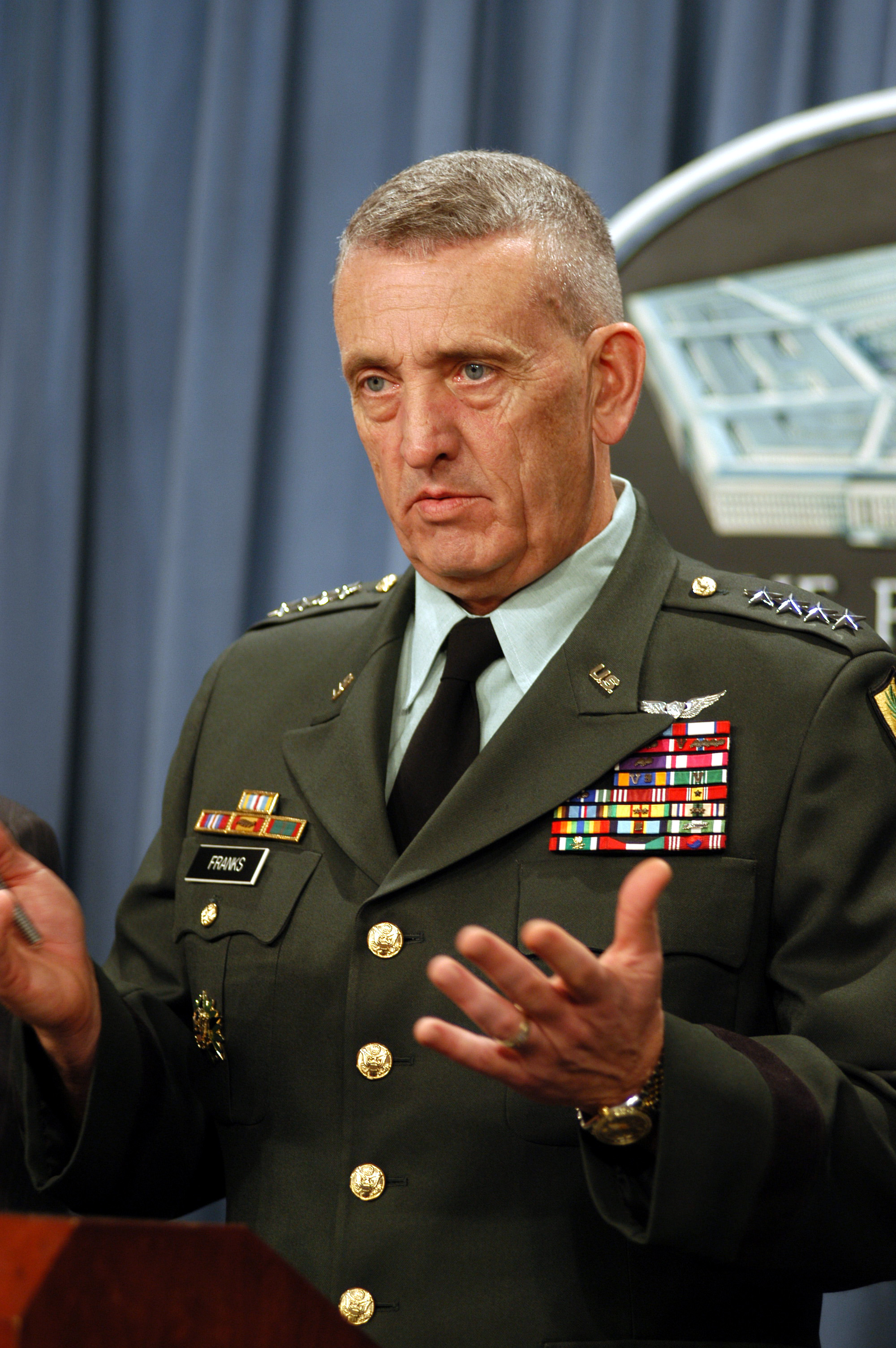 Commander, Central Command General Tommy Franks, U.S. Army, responds to a reporter's question at a Pentagon press conference on March 5, 2003. Franks joined Secretary of Defense Donald H. Rumsfeld to give reporters an operational update and field questions on the possible conflict in Iraq. DoD photo by Helene C. Stikkel. (Released).